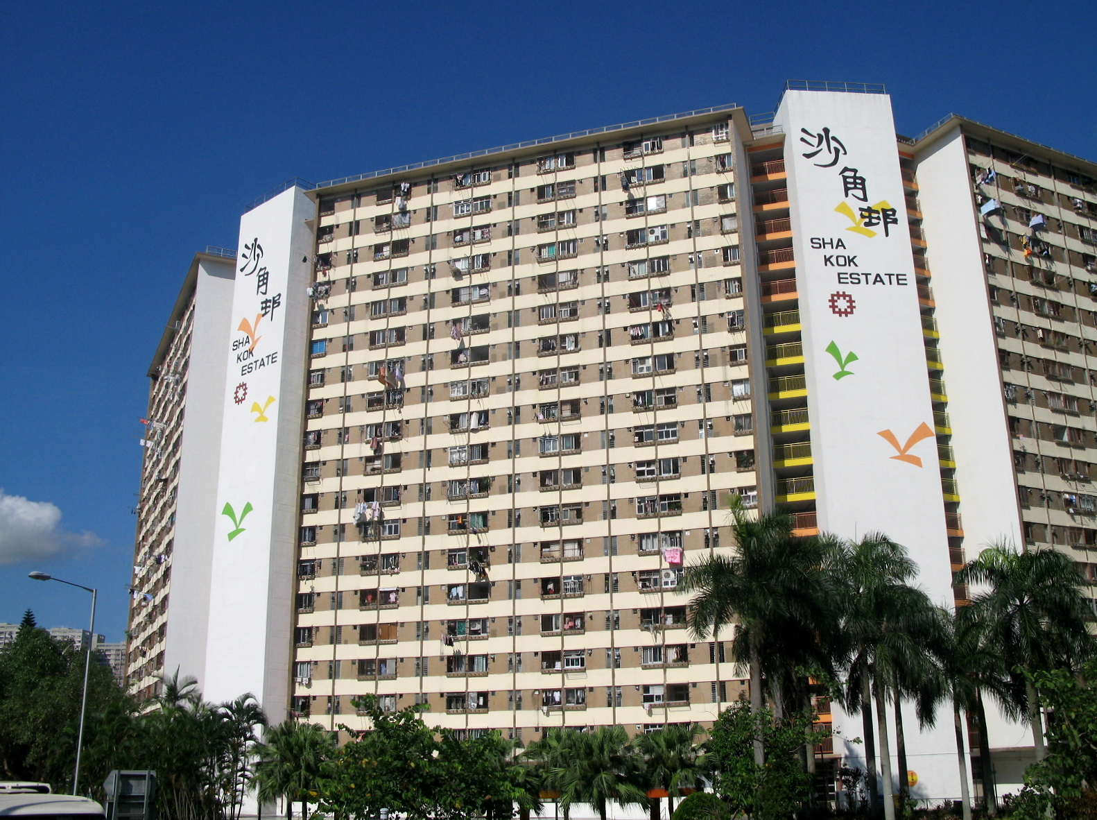 HK Shatin HK Sha Kok Estate